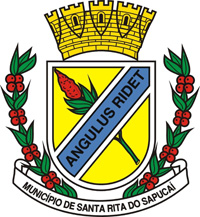 Seal of Municipality of Santa Rita do Sapucaí